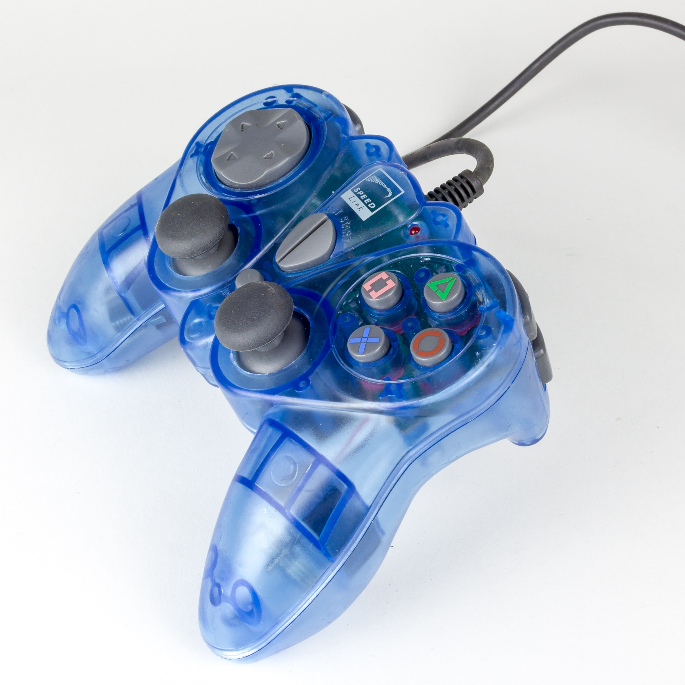 Speedlink Raptor Pad SL-5215 for Playstation